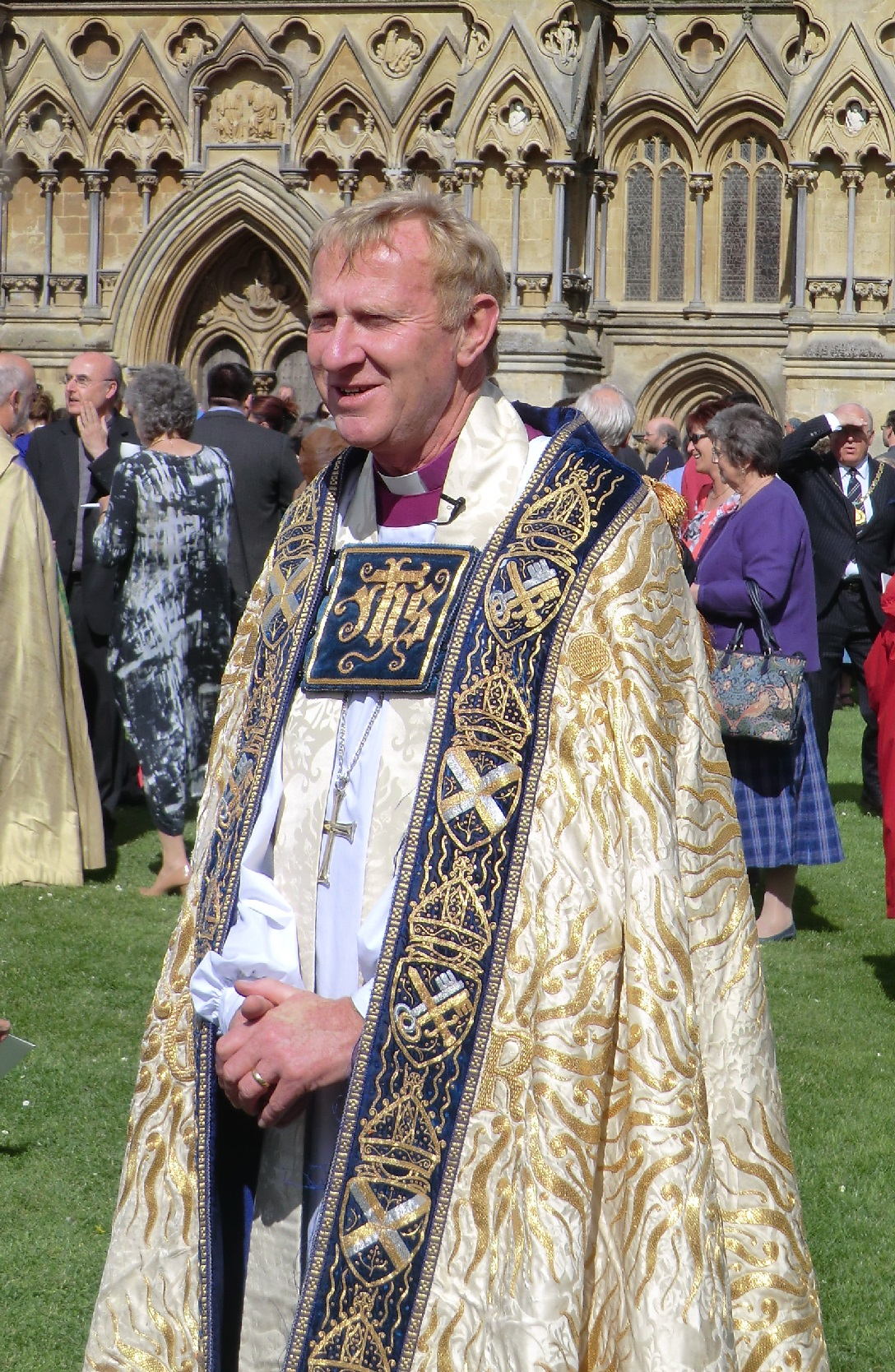 Peter Hancock, Bishop of Bath and Wells, on Cathedral Green, Wells, shortly after his Installation at Wells Cathedral on 7 June 2014. He is wearing the Coronation Cope, which has been worn by Bishops of Bath and Wells at every coronation since Edward VII.